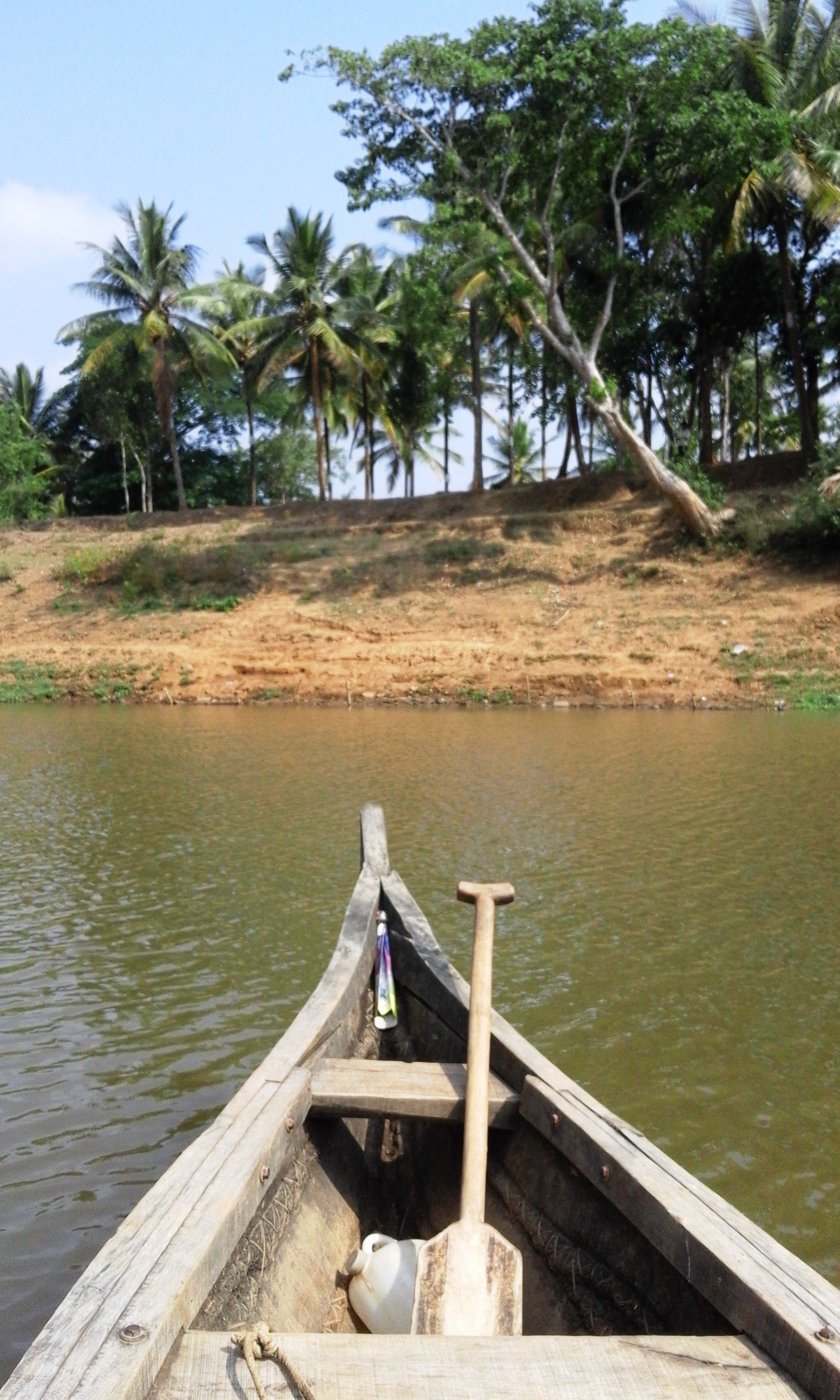 H.D.Kote Taluk, Mysore district, Karnataka province, India